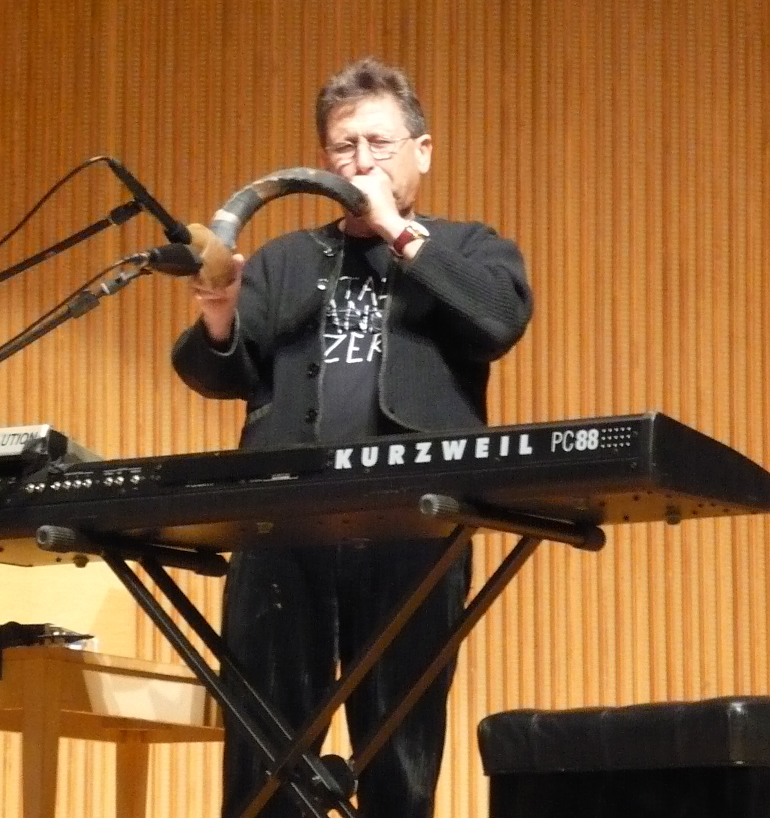 The American composer Alvin Curran playing the shofar in his composition "Shofar 3," for shofar and live electronics (2007). Photo taken at a concert of Curran's music in Warner Concert Hall, Oberlin Conservatory of Music, Oberlin College, Oberlin, Ohio, United States.